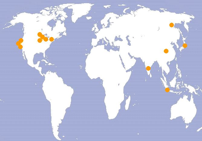 2007 map of teaching, visiting professorship etc. Leonid Hurwicz. Temporary image. If you have a better map please replace this. Thank you in advance.